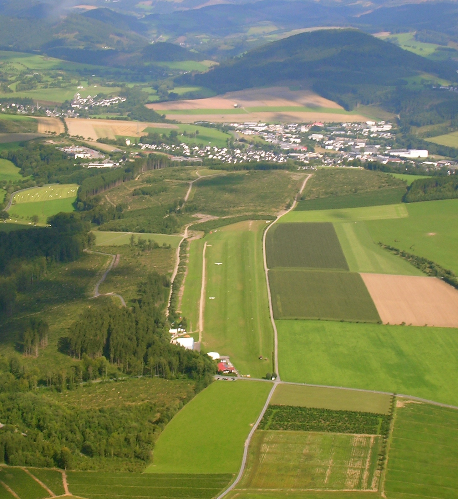 aerial photograph of german airfield Schmallenberg-Rennefeld (EDKR), looking to the East (RWY 09)